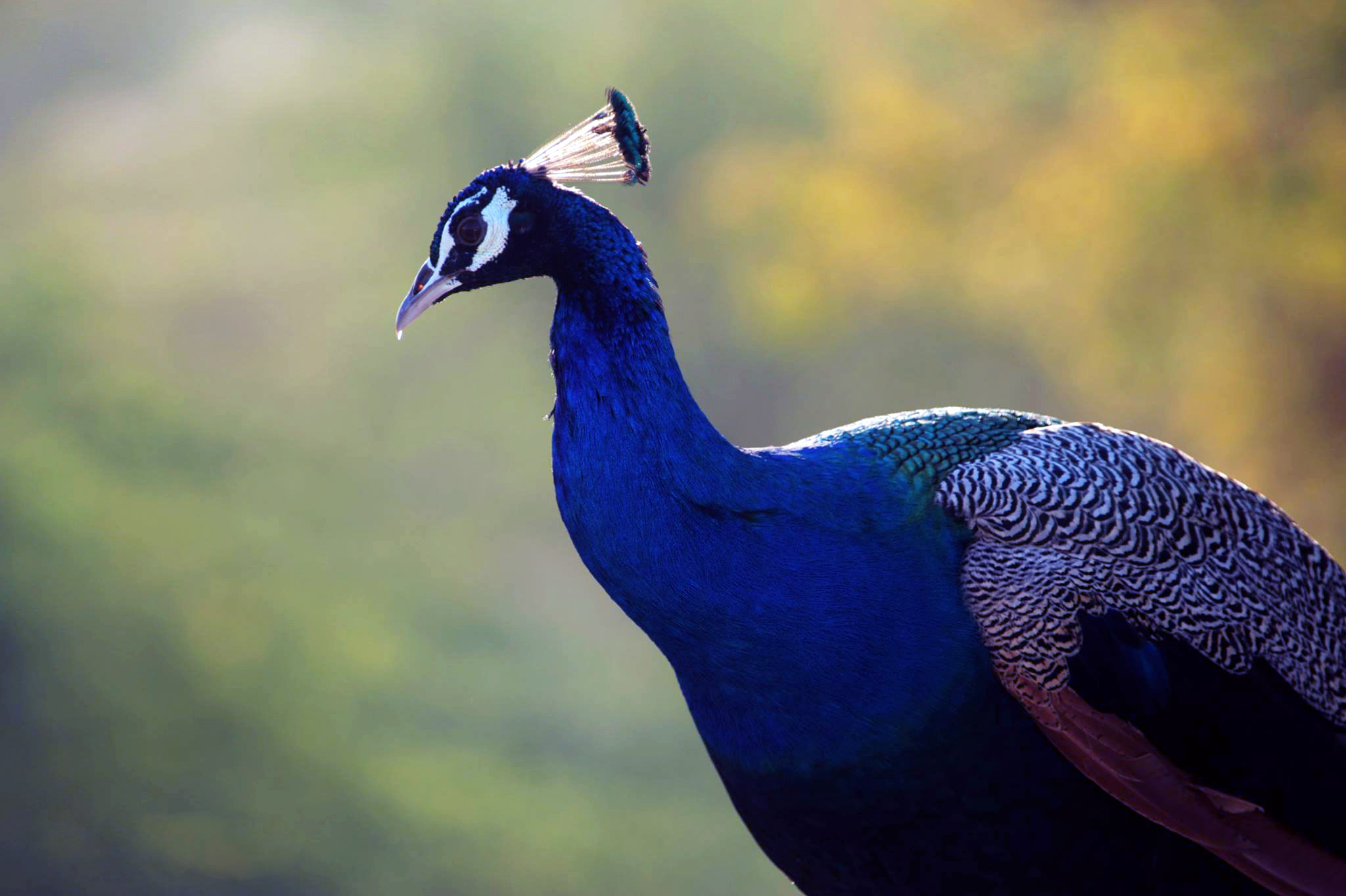 A lovely peacock in Tharparkar District, Sindh, Pakistan